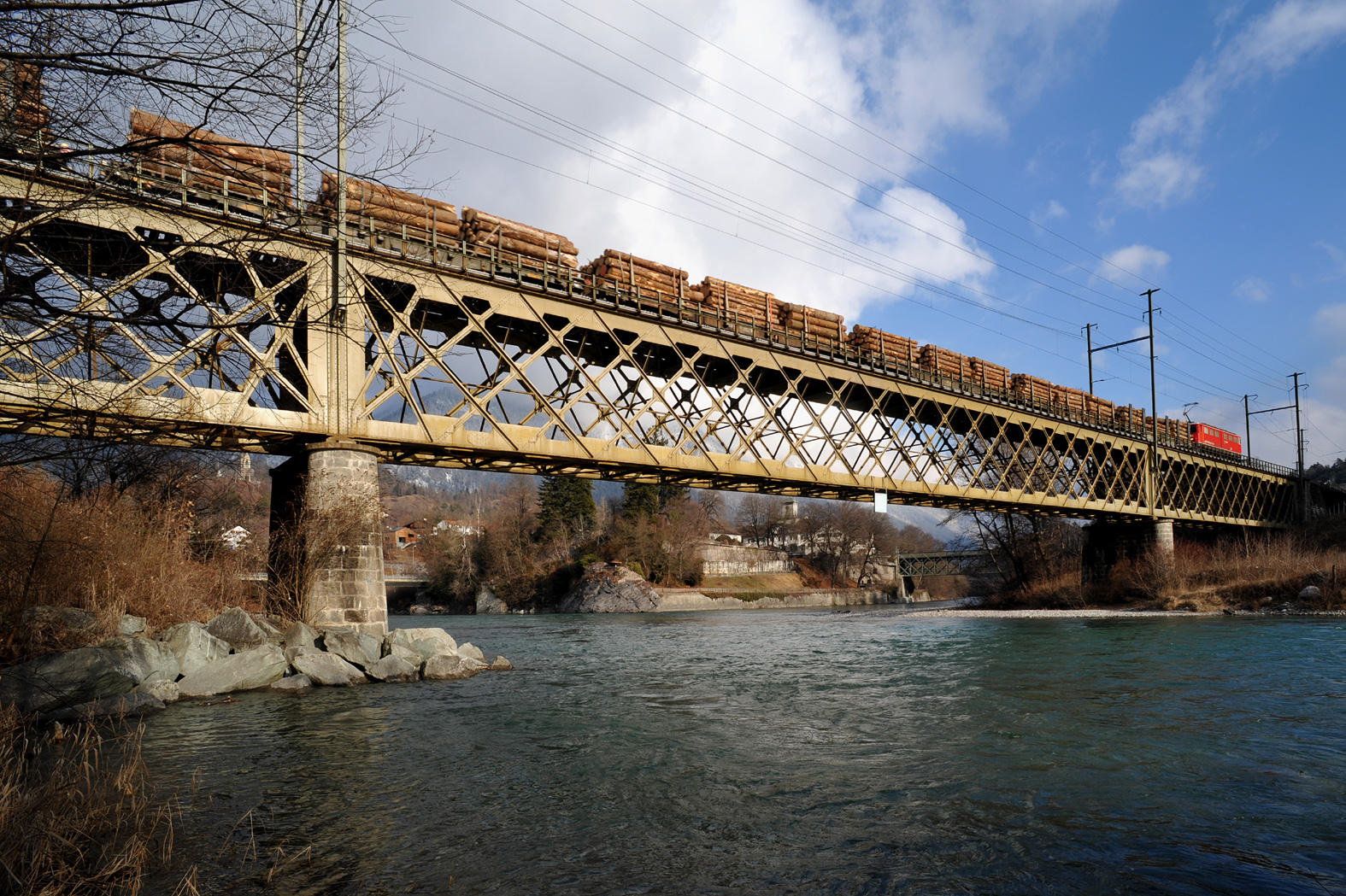 Hinterrhein bridge of the RhB near Reichenau, block train transporting tree trunks with locomotive Ge 6/6 II 703 «St. Moritz»; Graubünden, Switzerland. In the background right the old road bridge of Reichenau, left the road bridge between Reichenau and Farsch (Bonaduz) crossing the Vorderrhein.